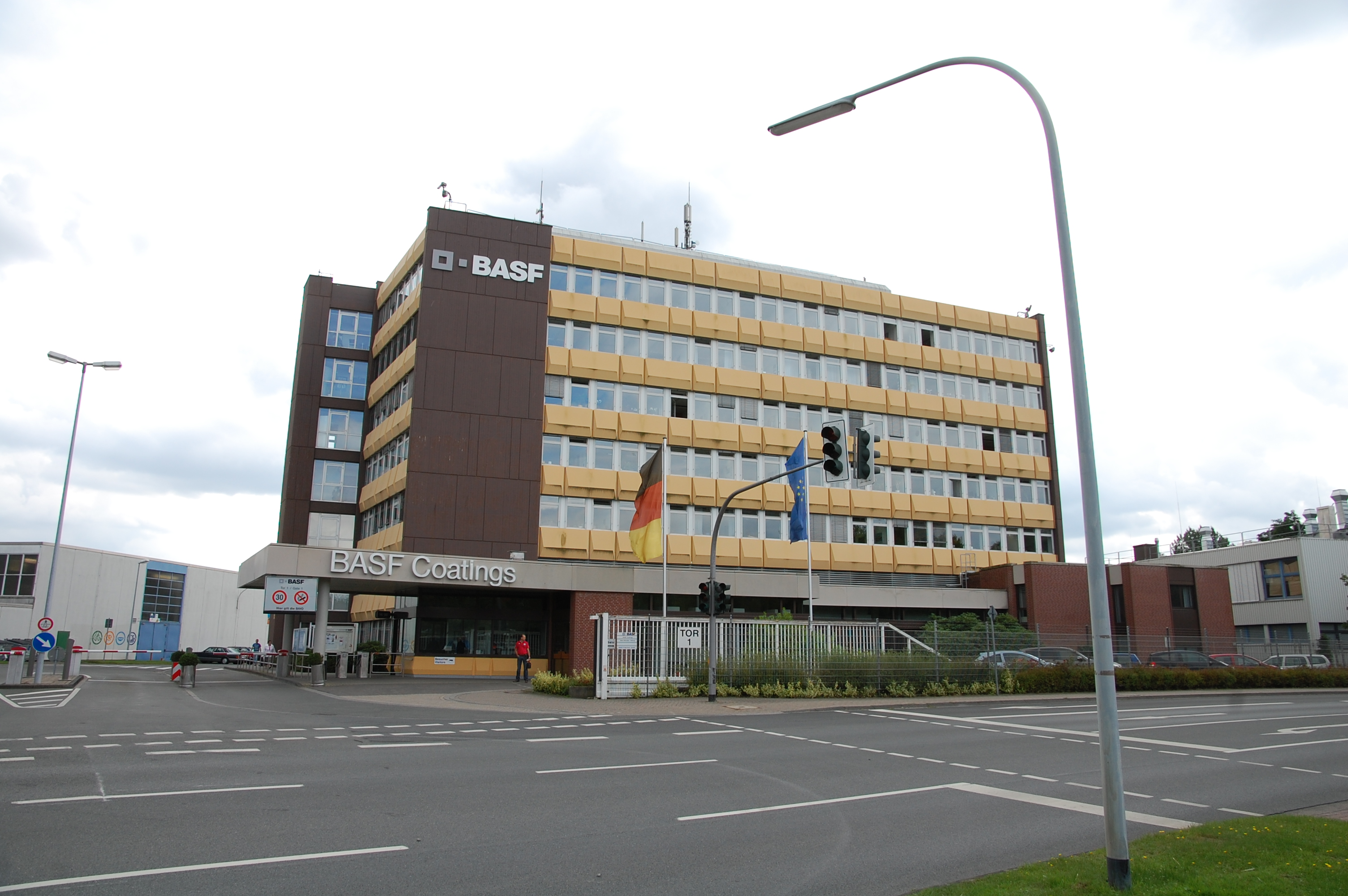 The main gate to the Glasurit factory in Münster-Hiltrup. (Today BASF)